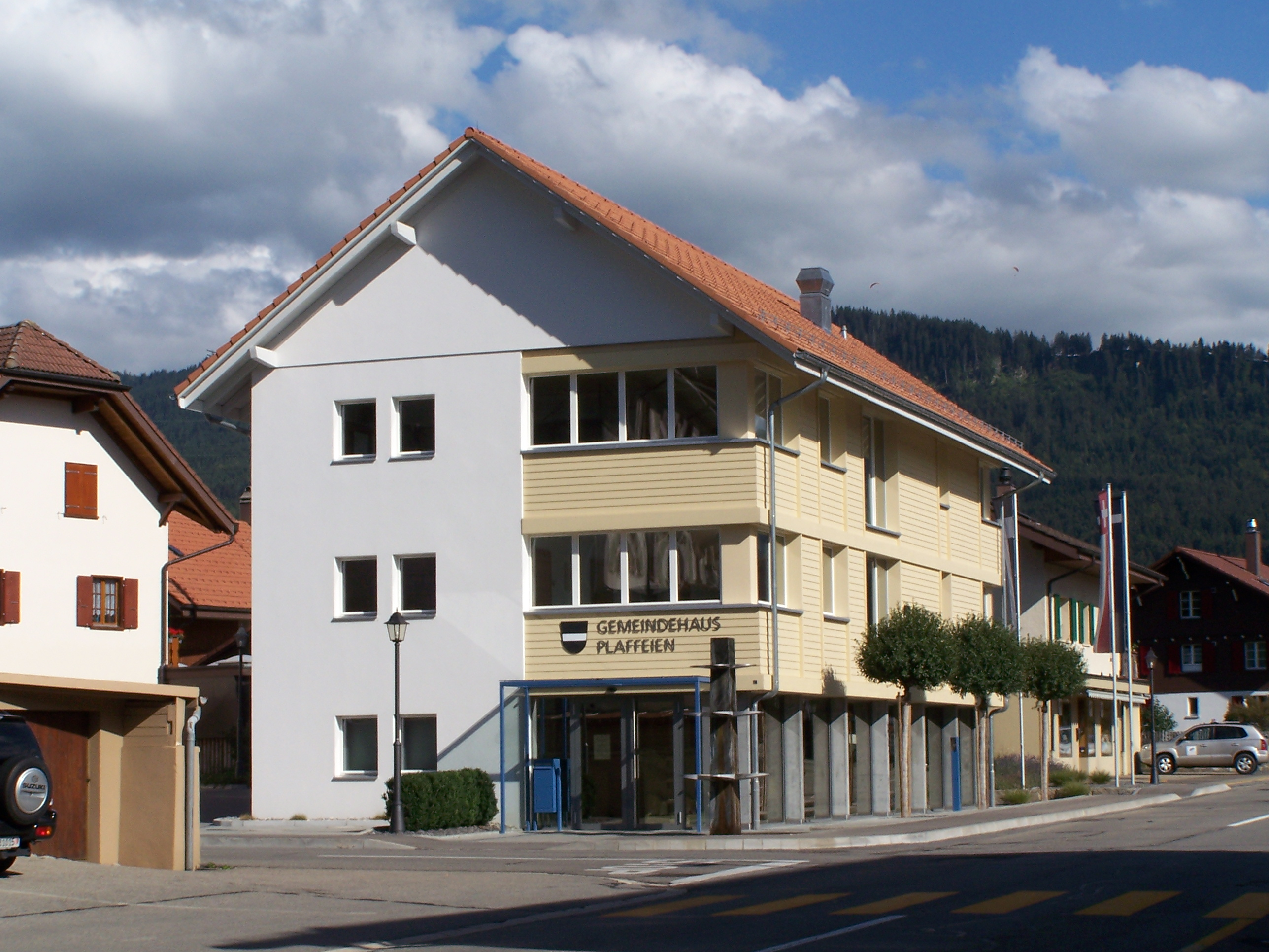 Plaffeien Townhall